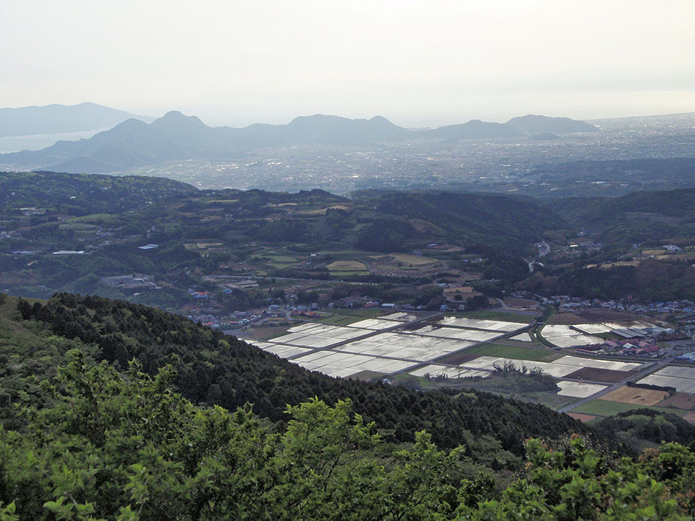 The northern part of Izu Peninsula as seen from the east by north. Shot at Takichipama park. Tanna Basin in the foreground.